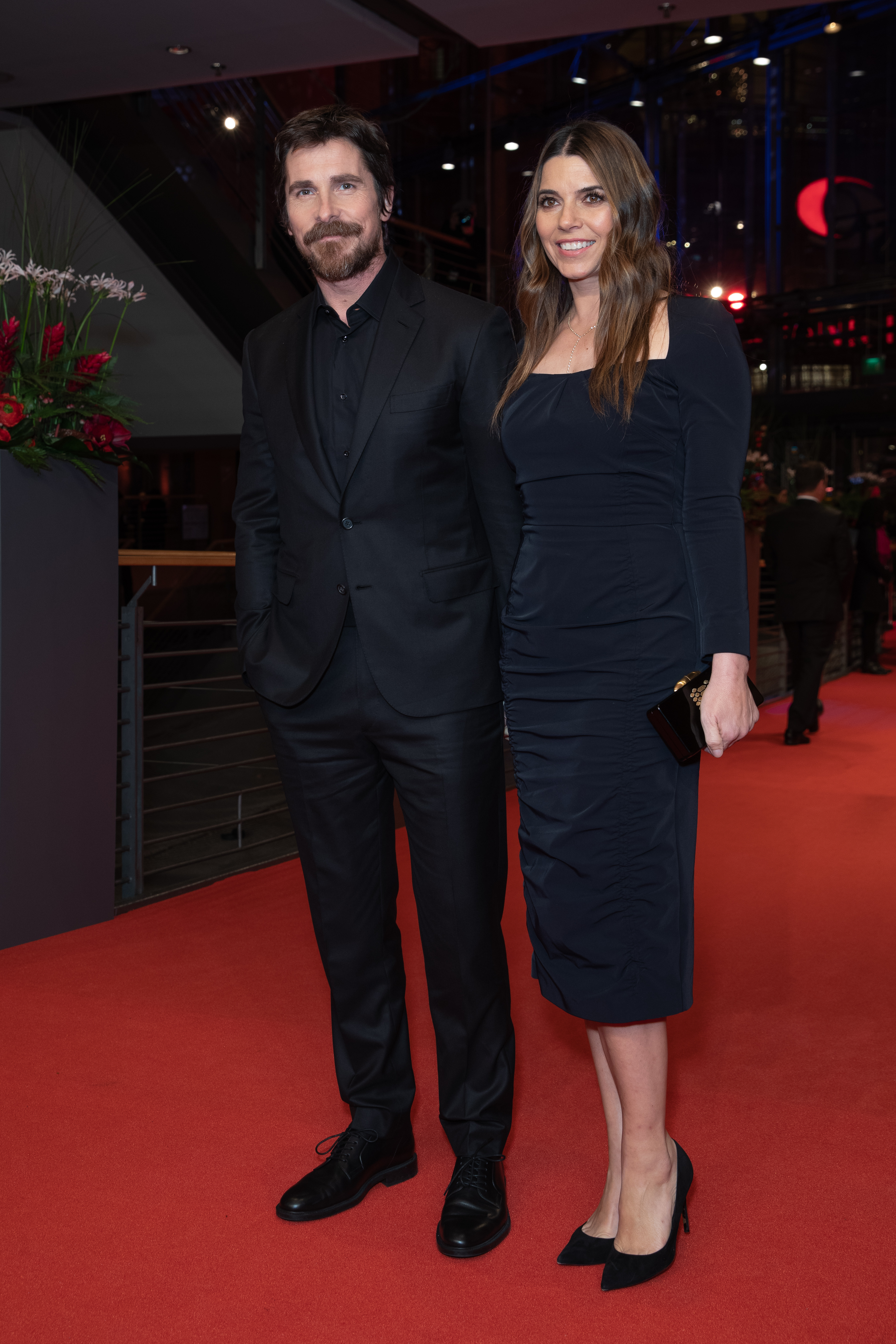 Christian Bale and his wife Sibi Blažić presenting the movie "Vice" at the Berlinale 2019